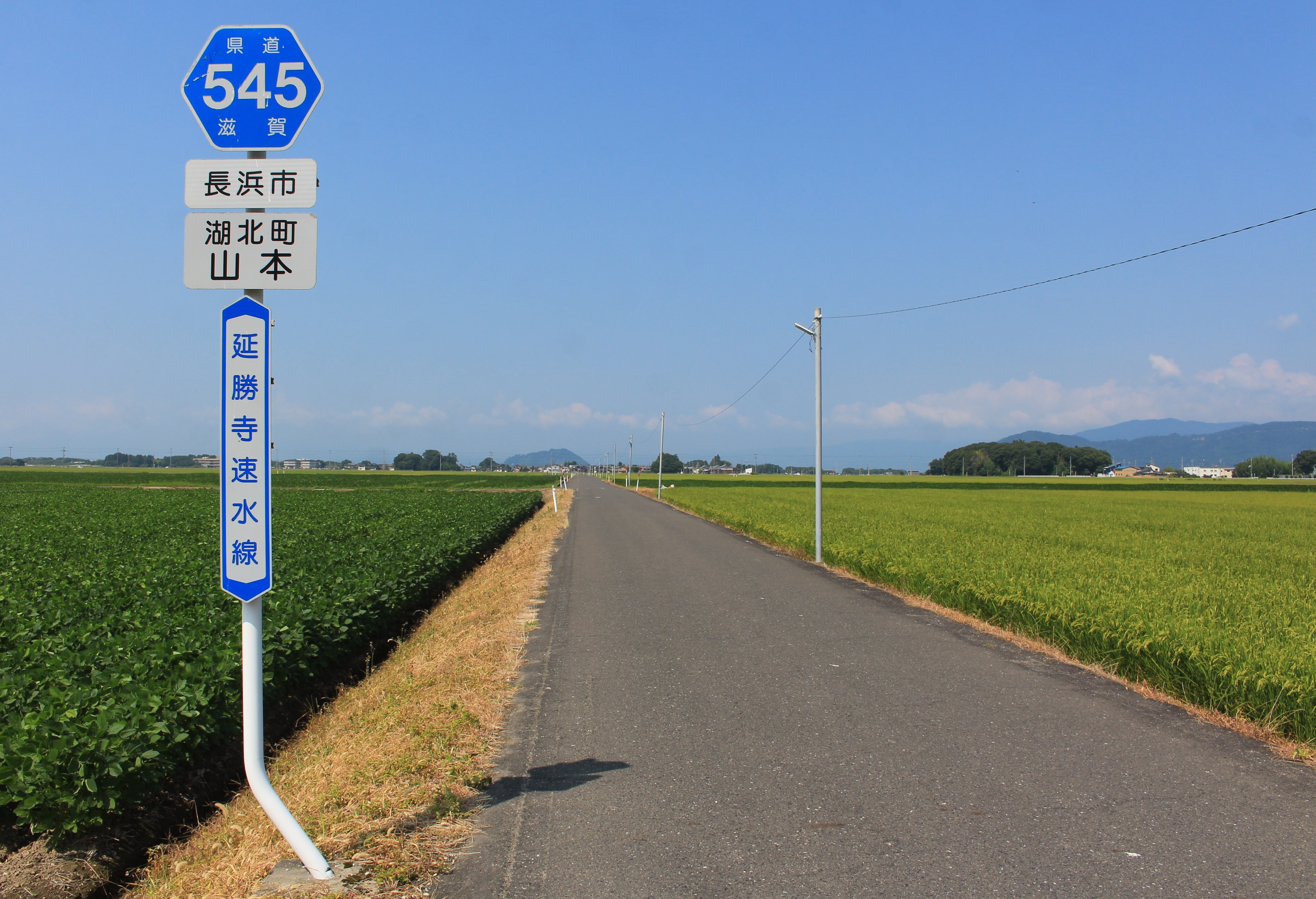 Shiga Prefectural Road Route 545 in Yamamoto, Kohoku-cho, Nagahama city, Shiga prefecture, Japan.